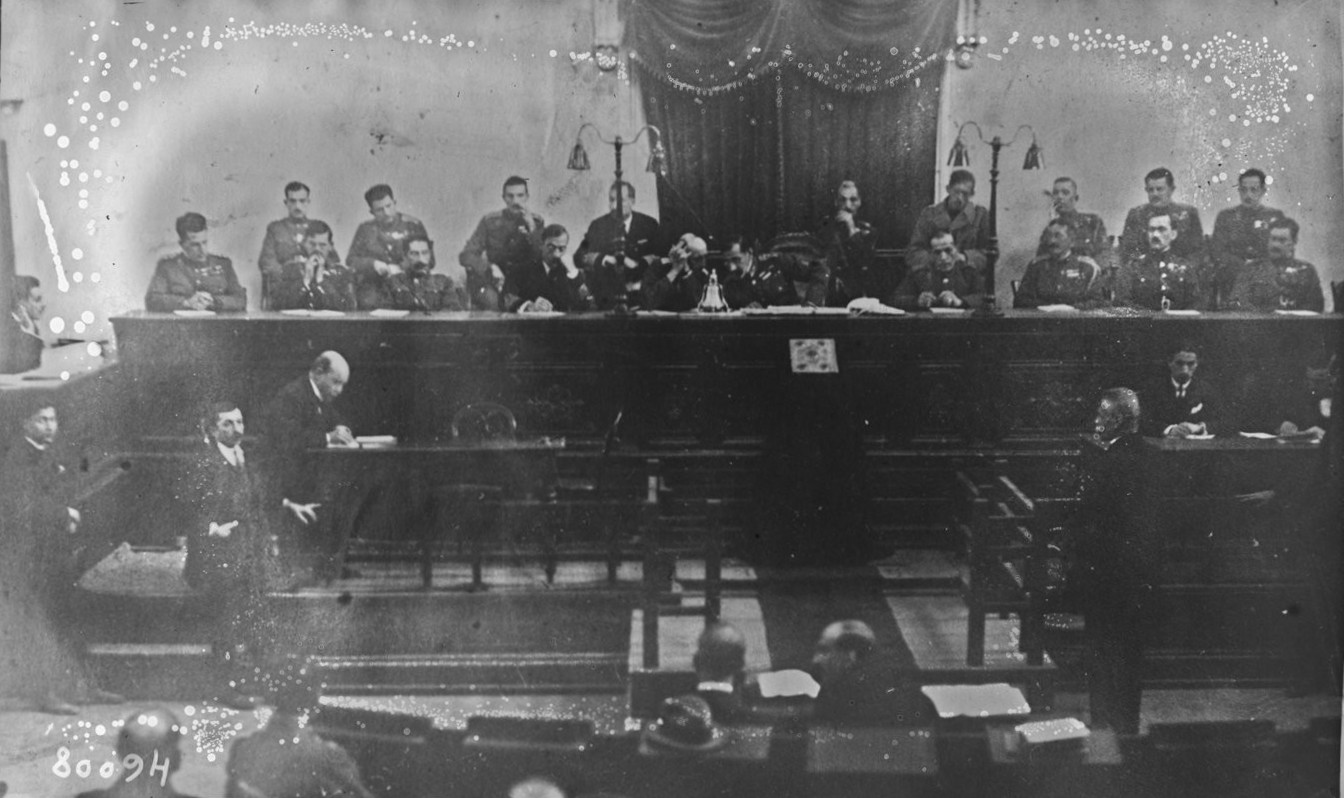 The judges during the trial of Prince Andrew of Greece, part of the Trial of the Six